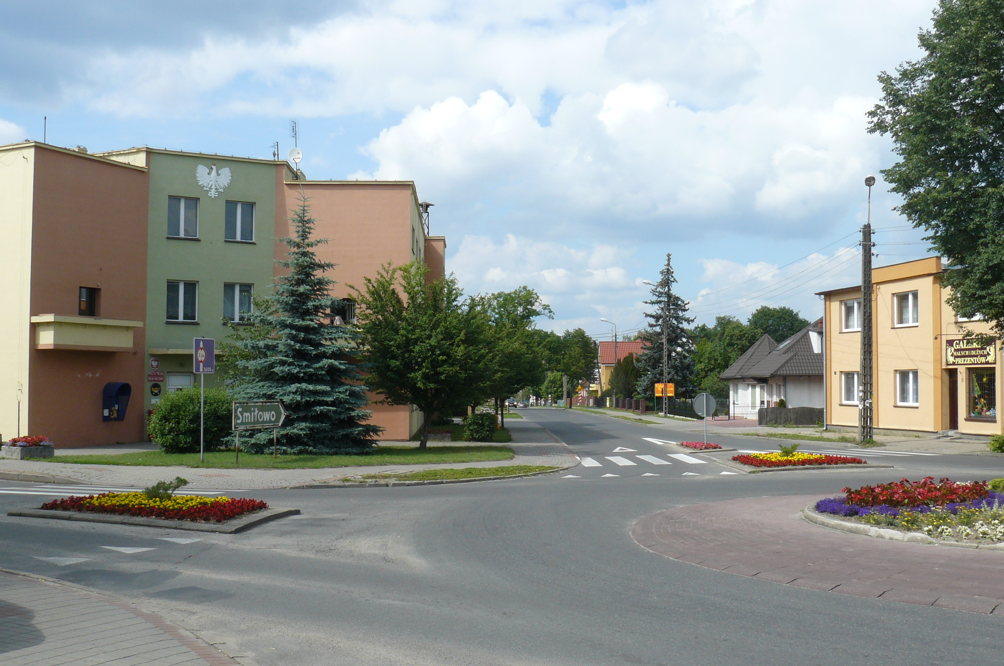 Center of Kaczory, PL.